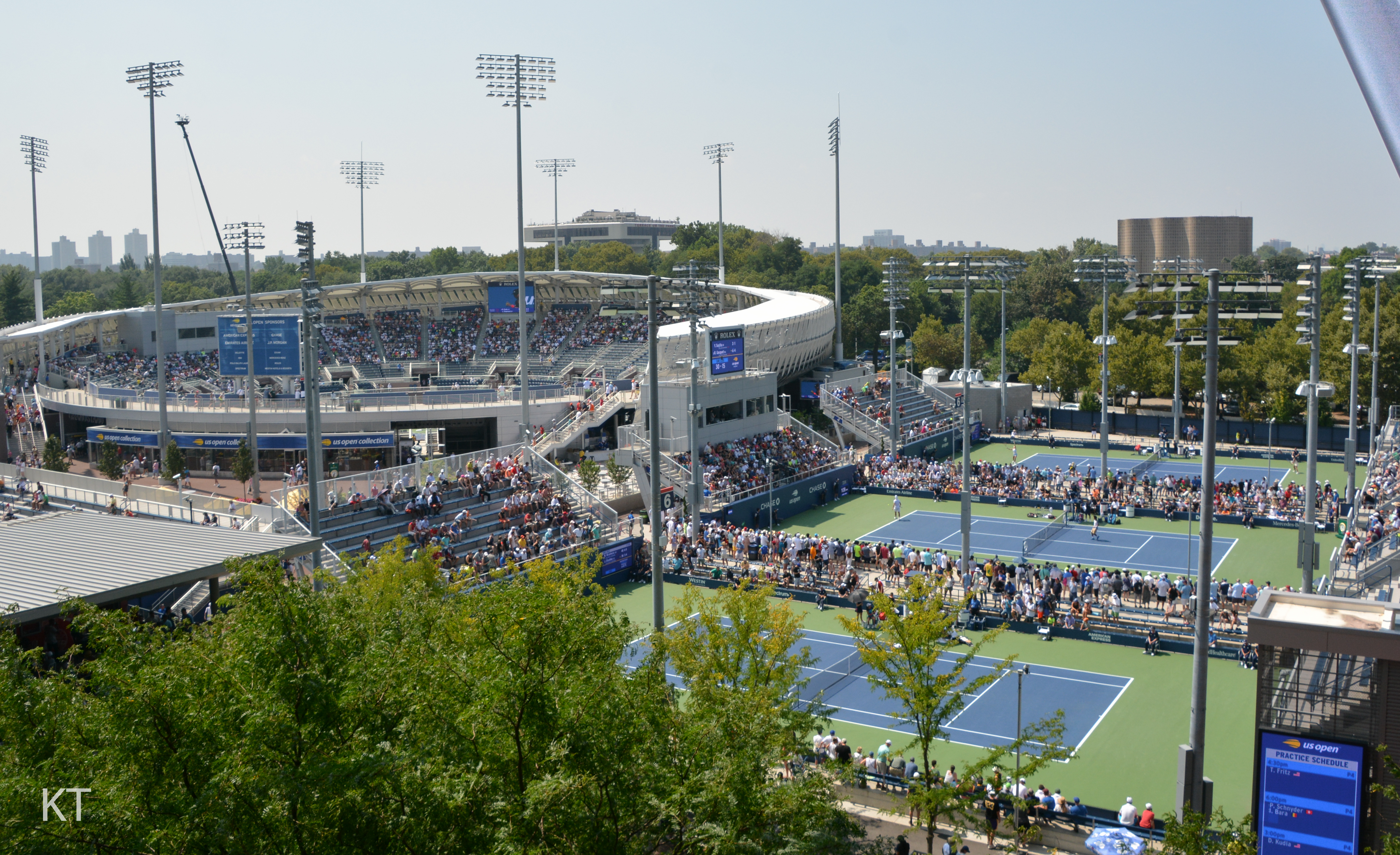 Grandstand, and Courts 6, 5 & 4. US Open 2018 – Tuesday, 28th August 2018.